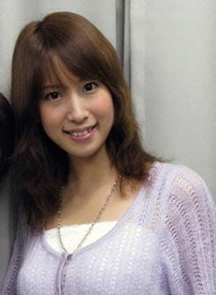 Ami Koshimizu in November 2008 in Waseda University.